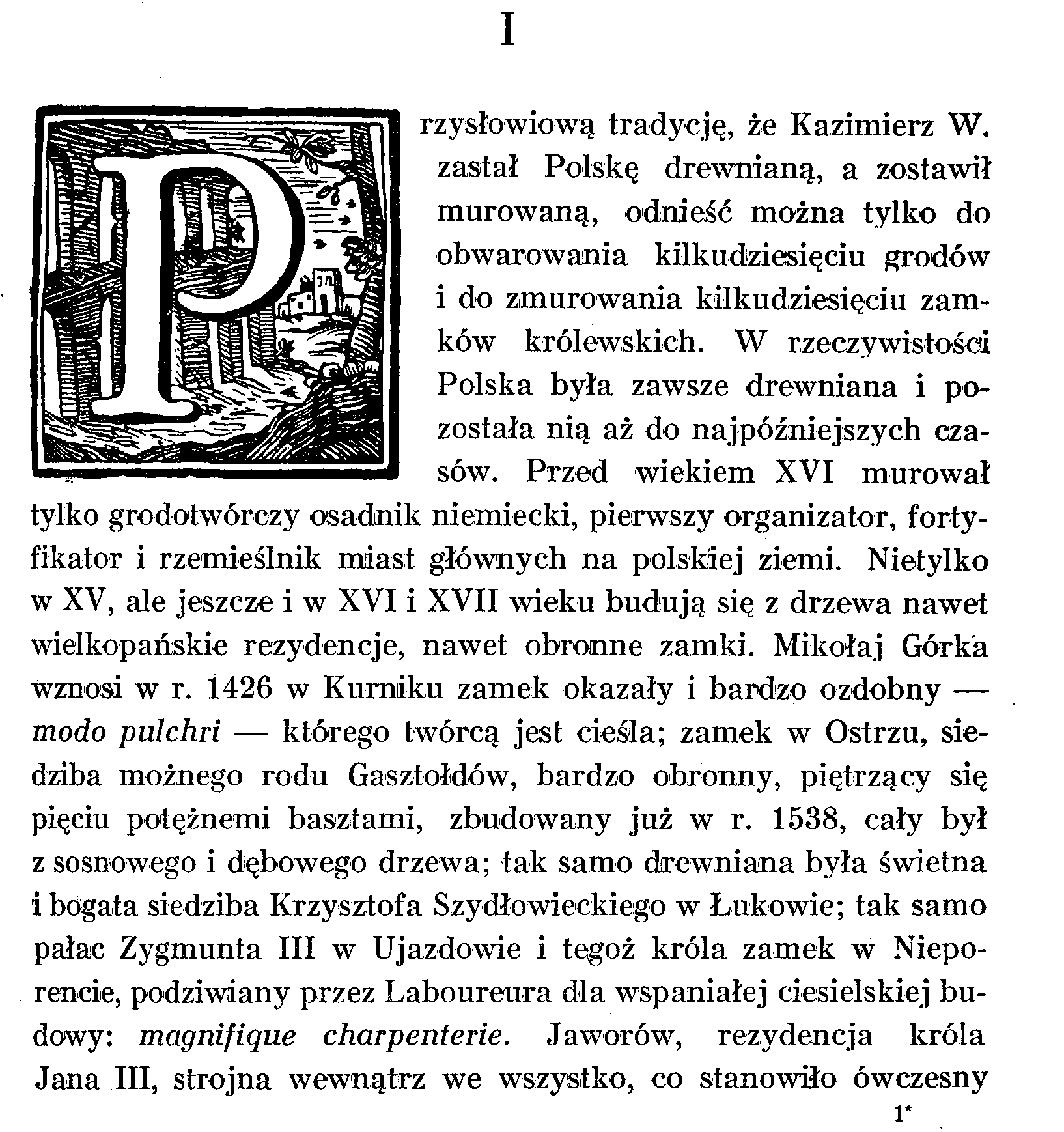 Initial: first page of first chapter of Łoziński's "Life in Poland in old times"